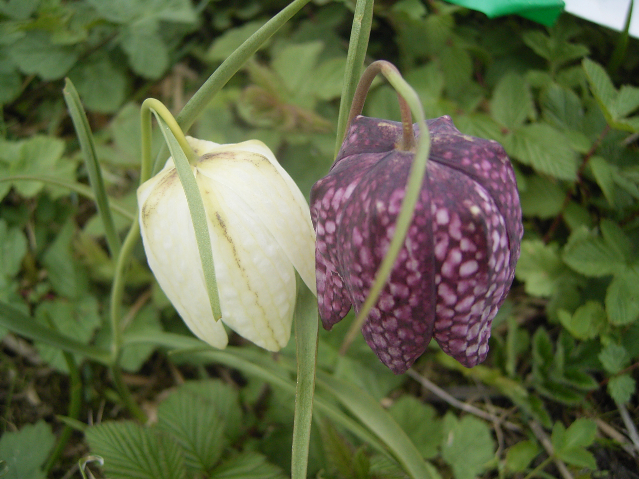 This photo shows the flowers of Fritillaria meleagris, a purple and a white specimen.